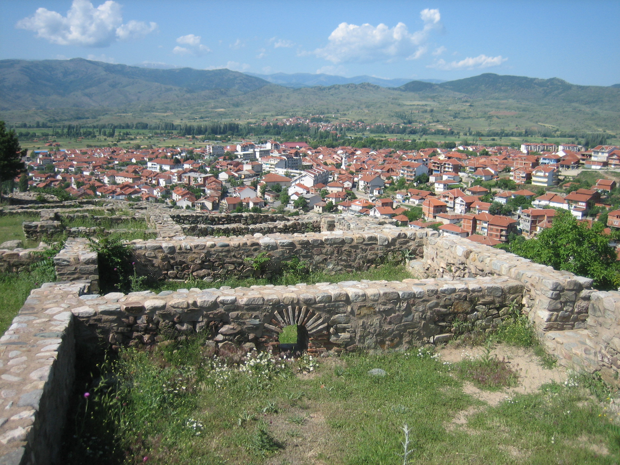 Vinica and fortress ruins.